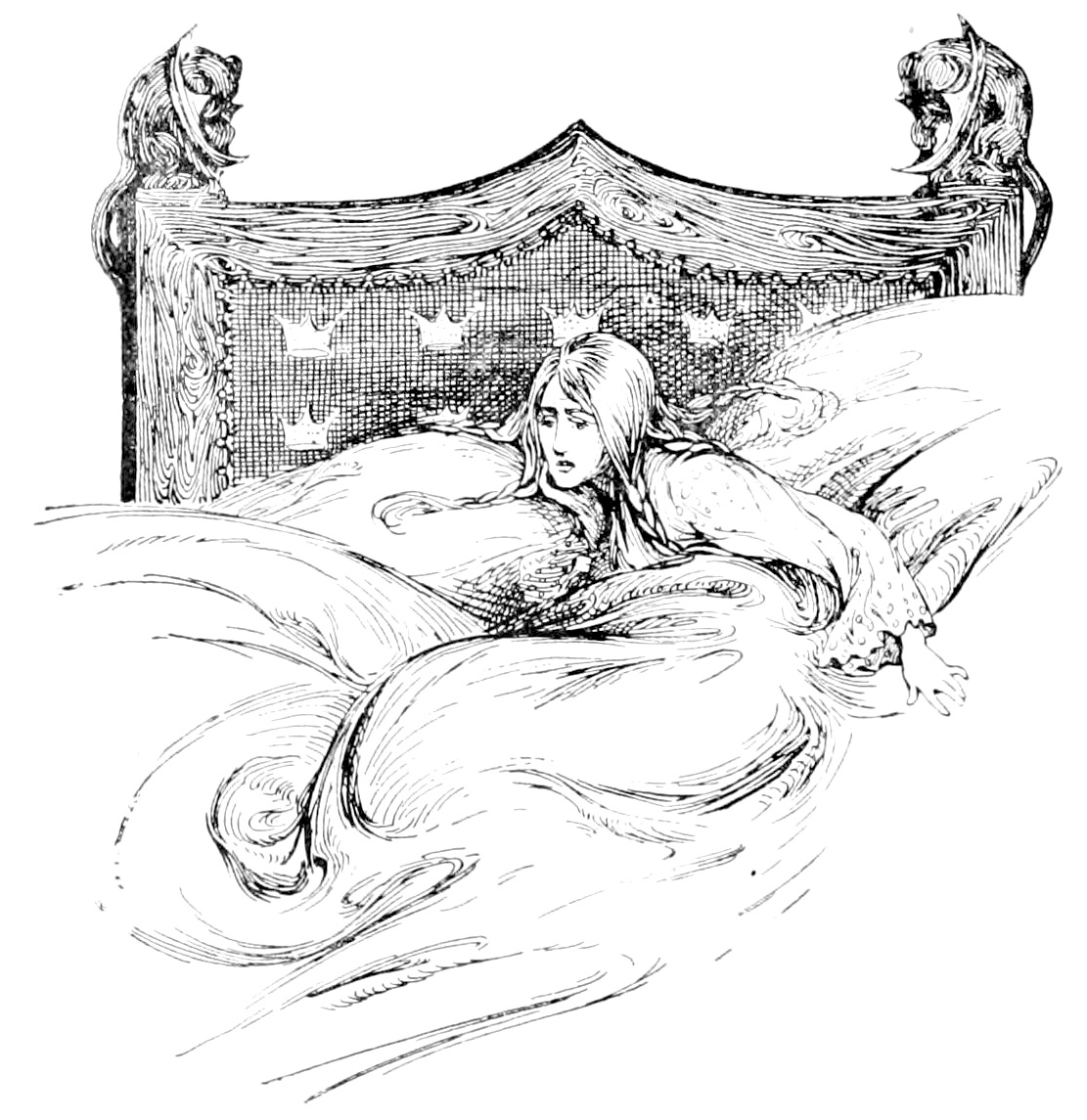 Illustration in a collection of Andersen's Fairy tales.